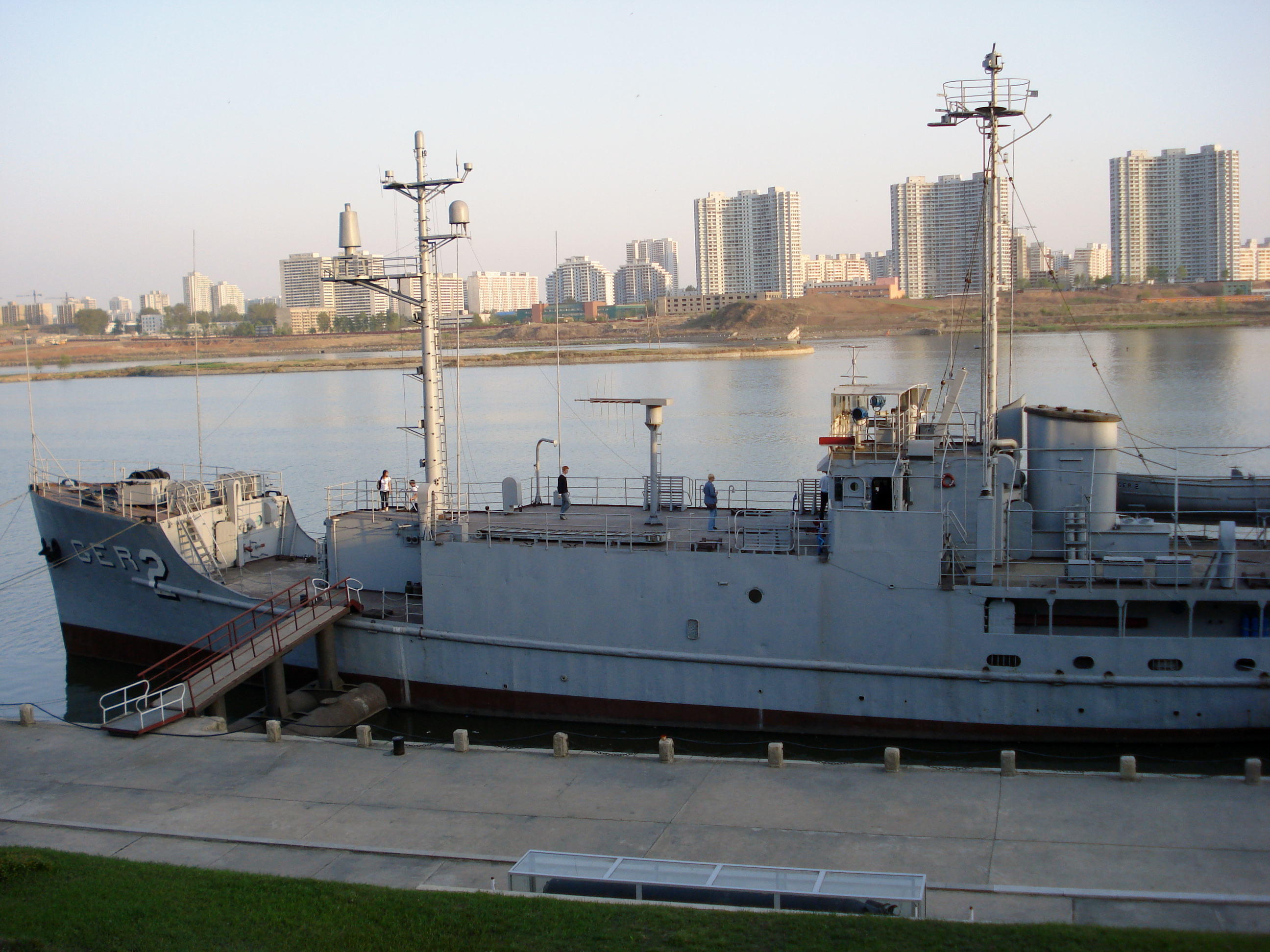 USS Pueblo, 2009